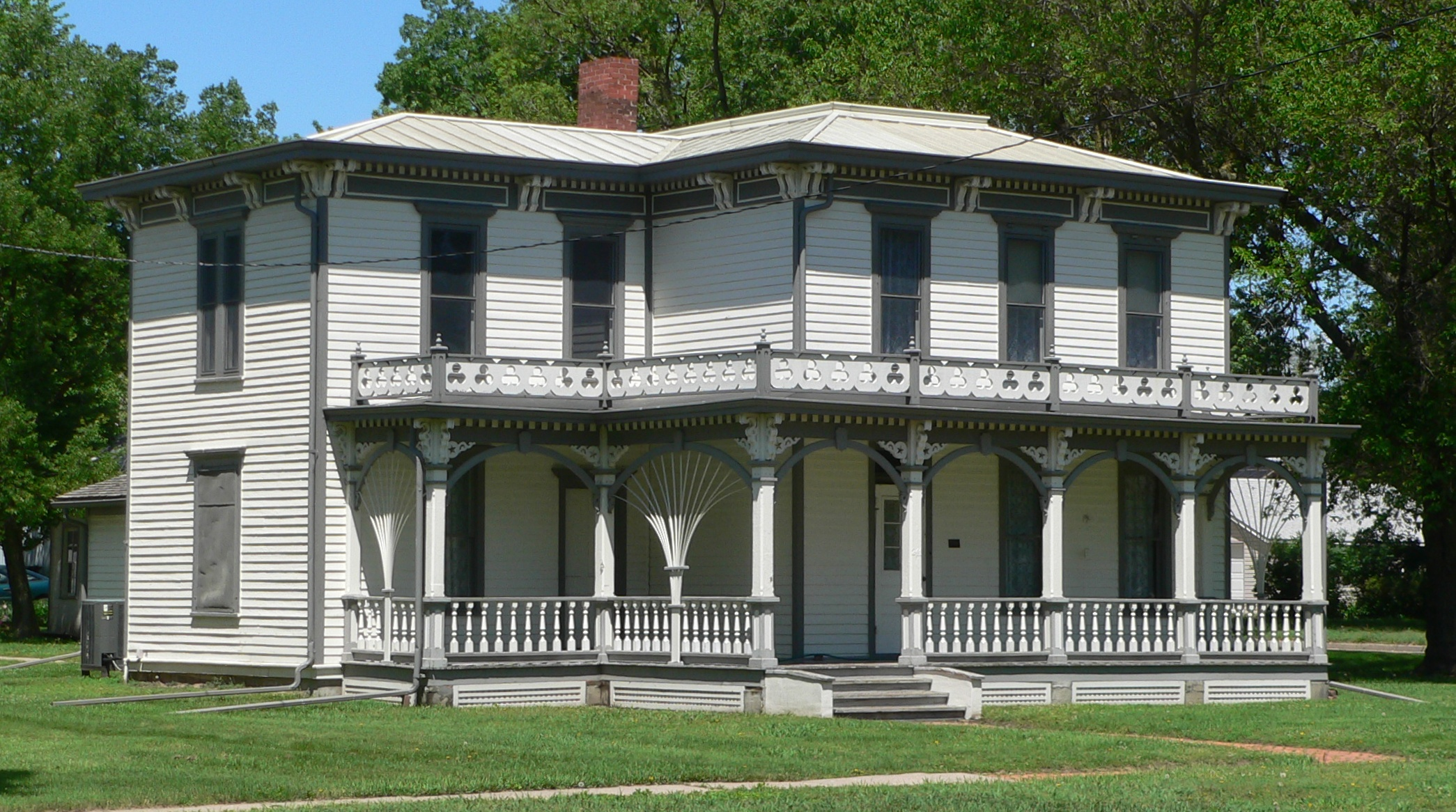 Miner House in Red Cloud, Nebraska; seen from the southeast. The Italianate house was built ca. 1878. It is listed in the National Register of Historic Places.